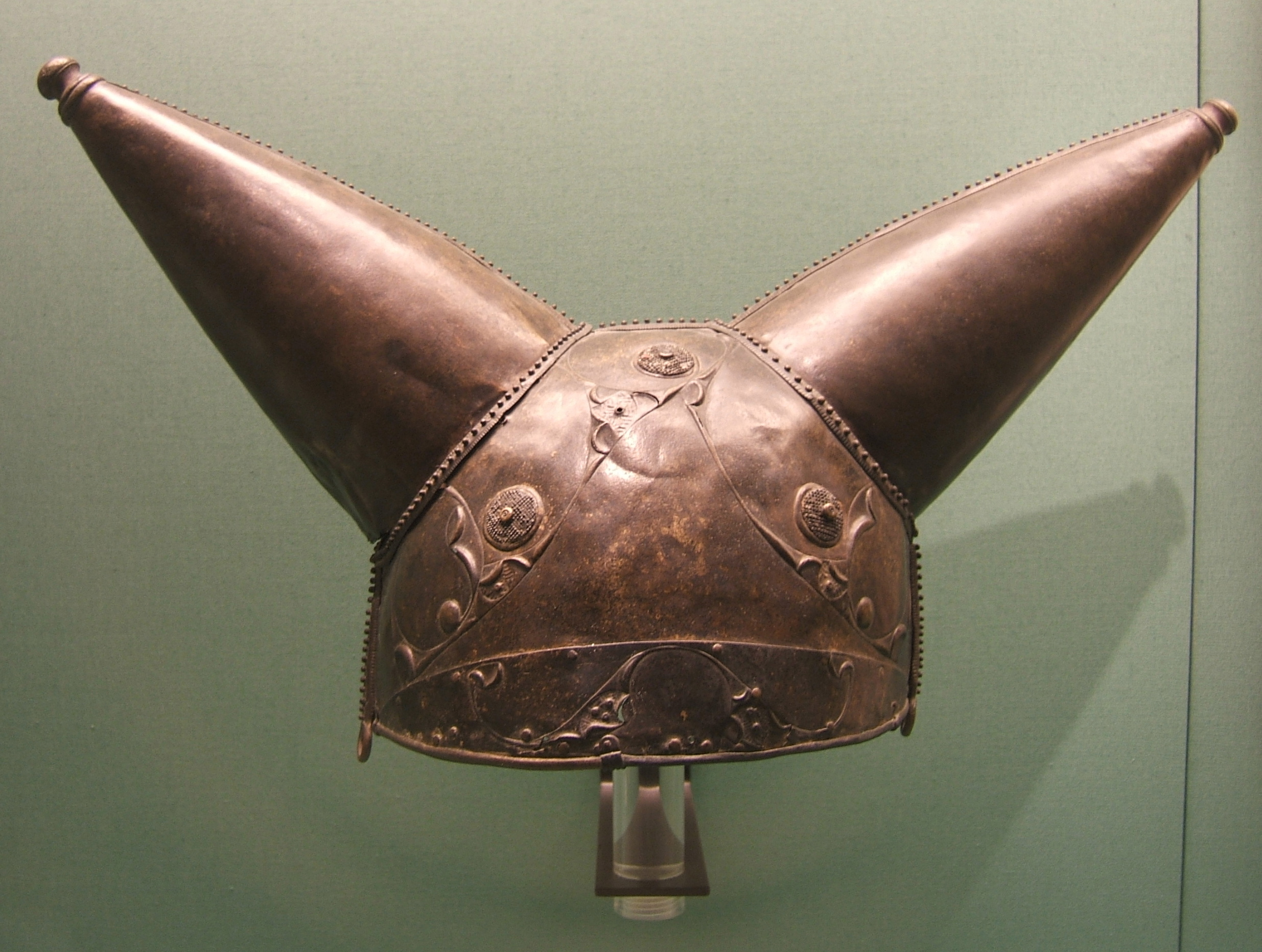 Celtic horned helmet (150-50 BC: from the River Thames at Waterloo Bridge, London, England). The helmet is made from sheet bronze pieces held together with many carefully placed bronze rivets. It is decorated with the style of La Tène art used in Britain between 250 and 50 BC. More info: [1]